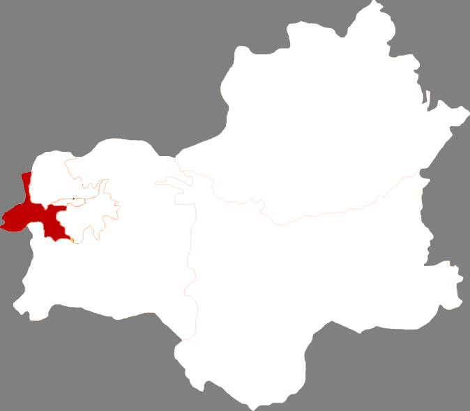 Location of Wanghua district in Fushun City, China